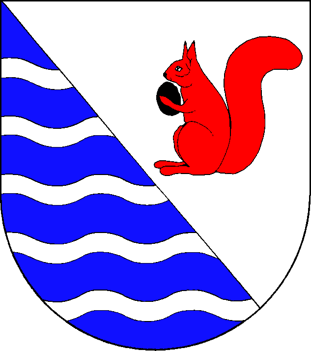 Coat of arms of the municipality Westensee in Schleswig-Holstein, Germany.